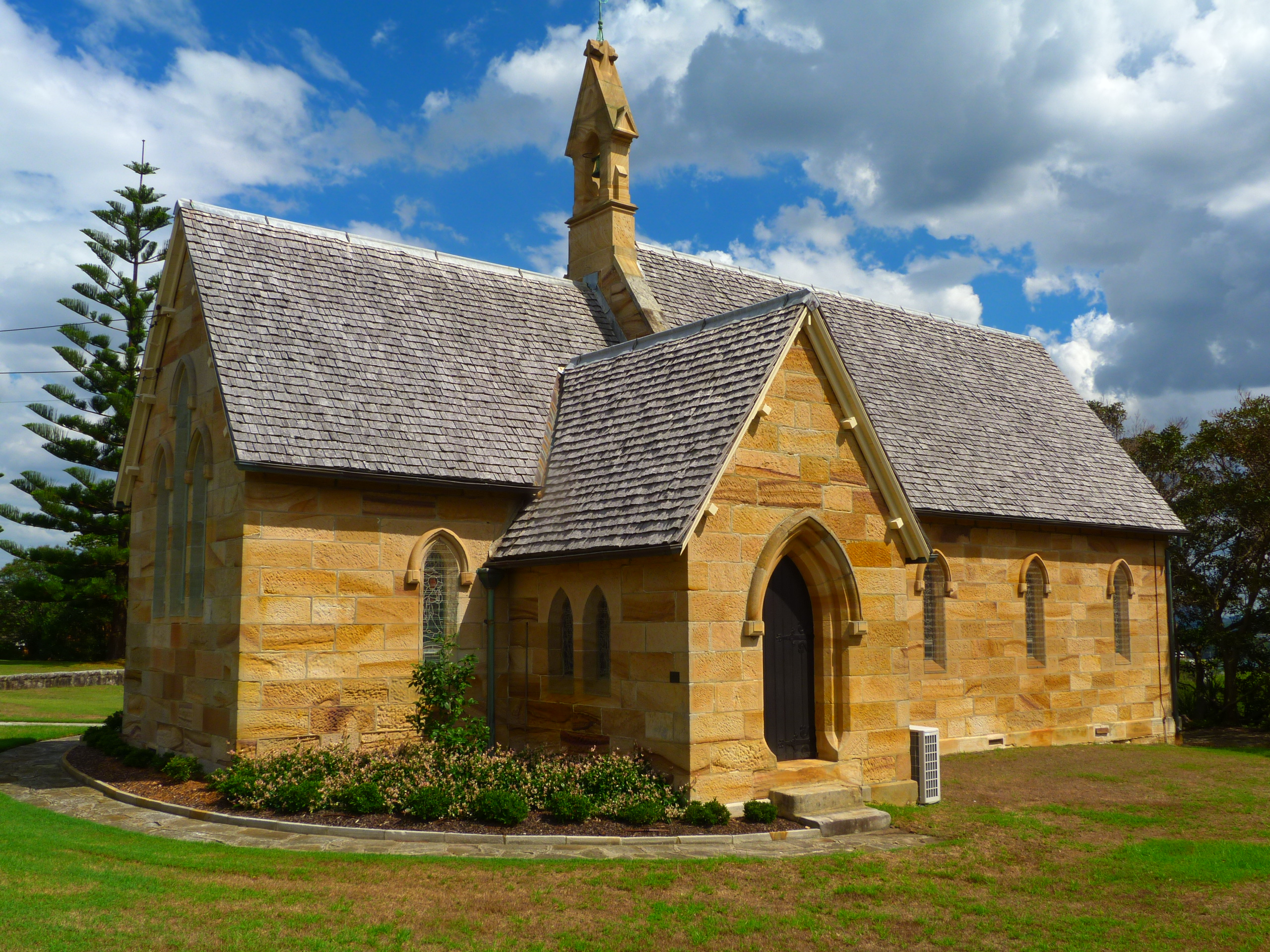 st peters church, sydney